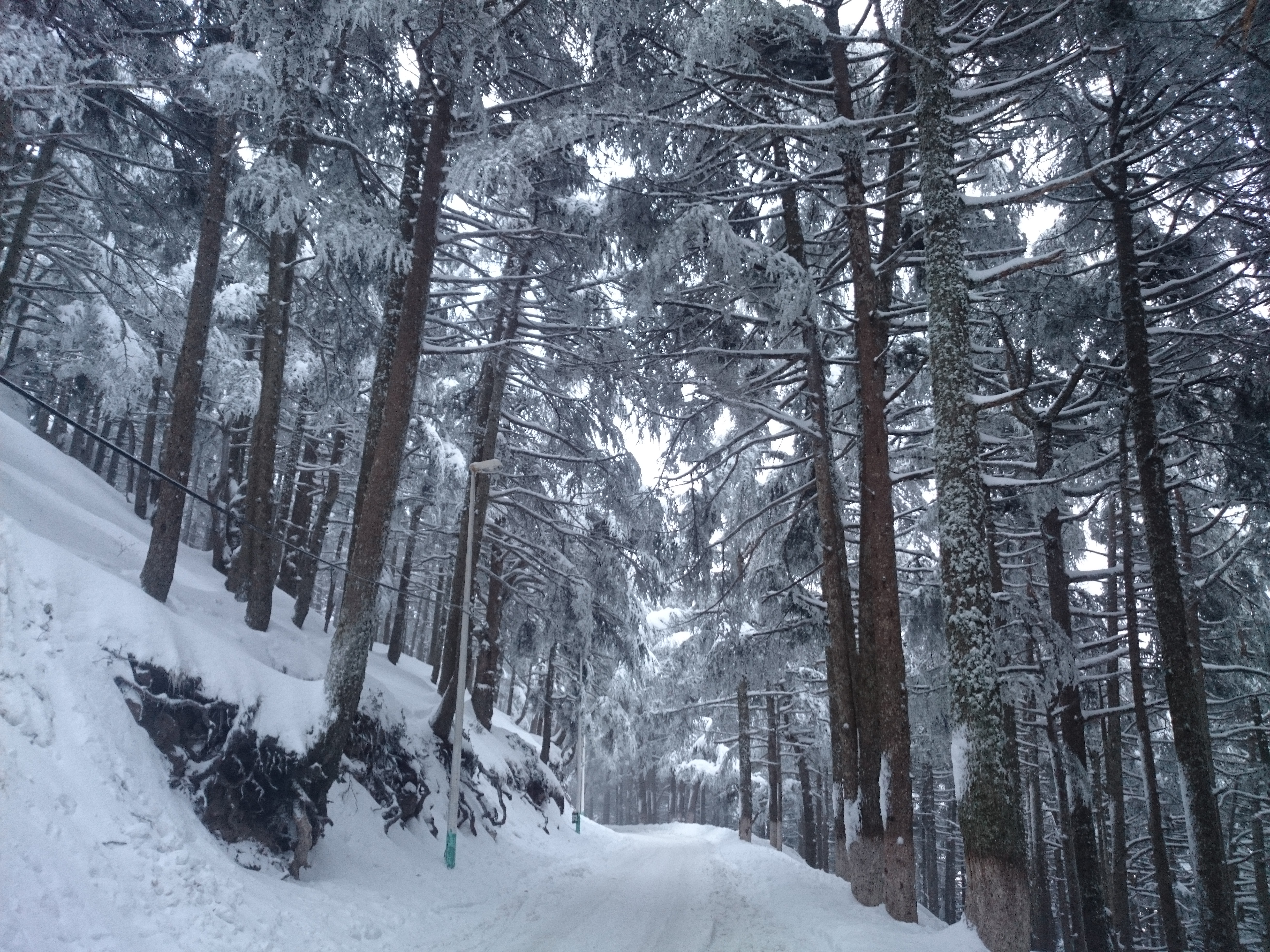 Parc National de Chréa,Blida Appareil : Sony Xperia Z1 (Aucune retouche)